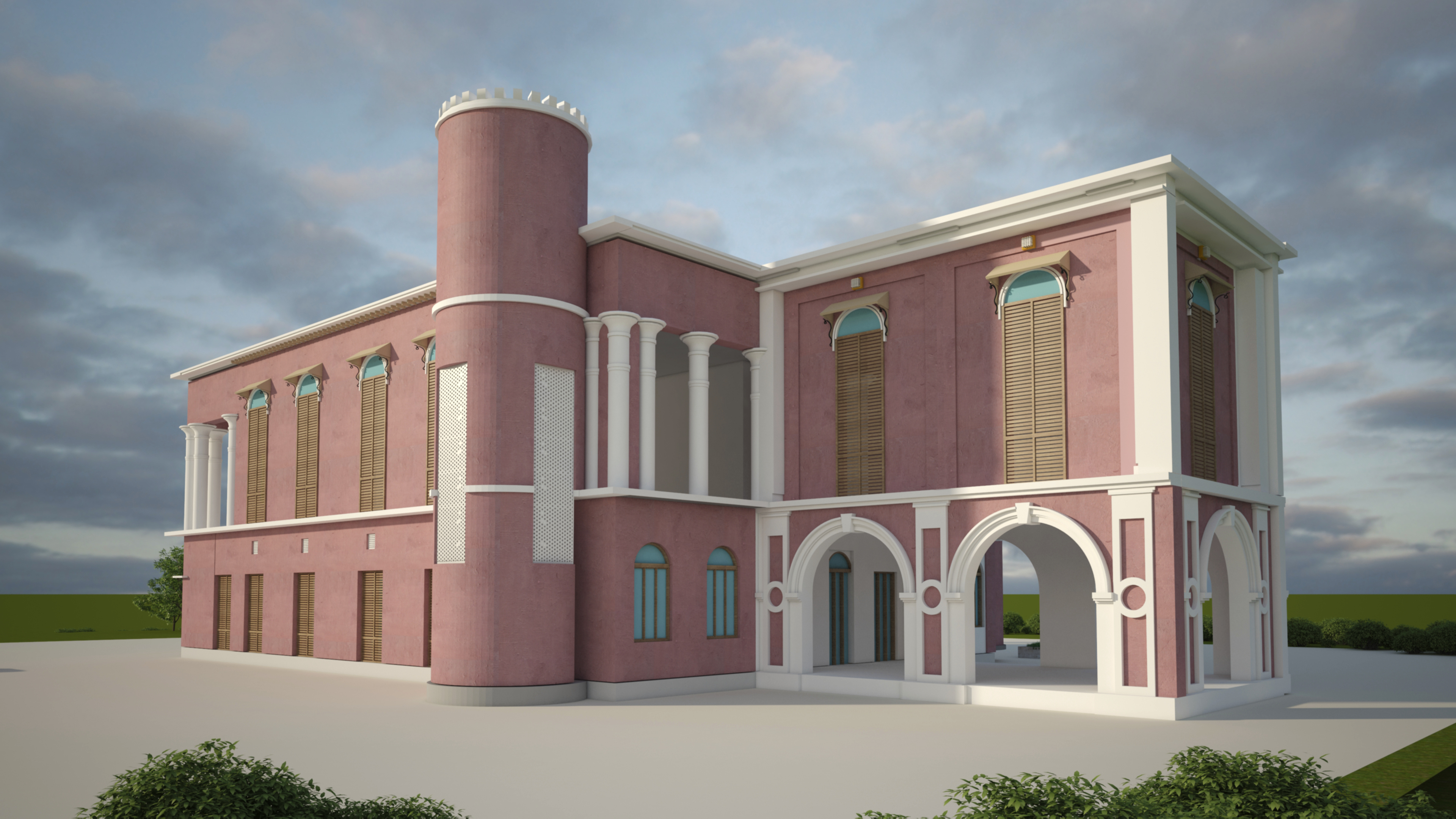 exterior image of wise house.